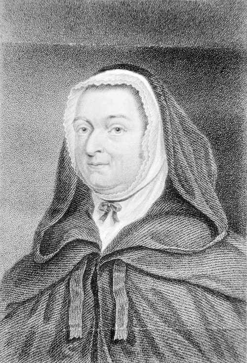 Undated. Portrait of Mary Bosanquet, later Mary Fletcher who lived for 14 years at Cross Hall in Morley. Photograph from the David Atkinson Archive (and with a very very dubious claim of copyright).